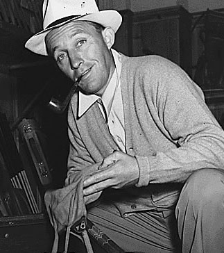 Description: Bing Crosby photographed in 1942.